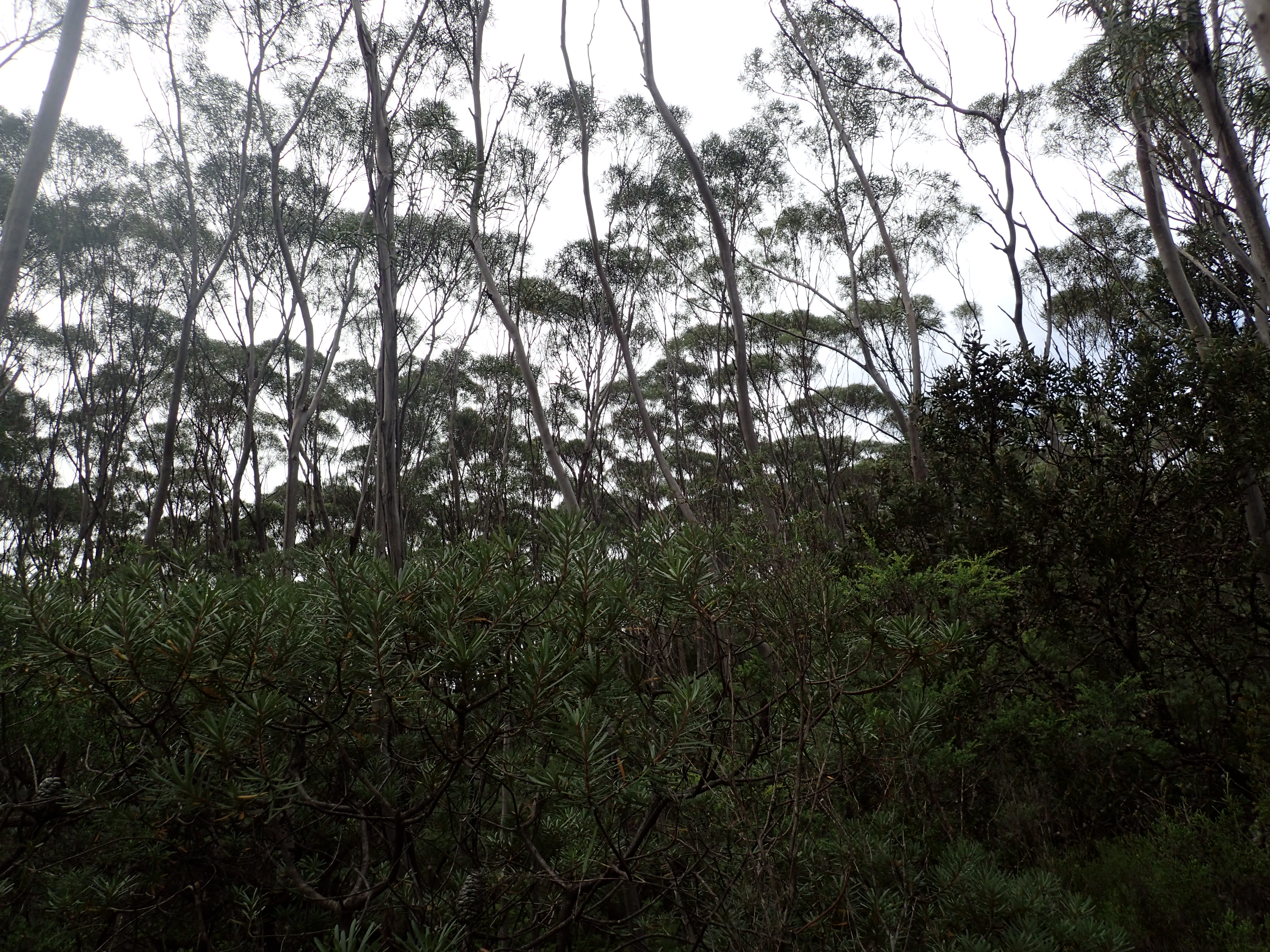 Eucalyptus approximans growing in mallee Shrubland on Barren Mountain